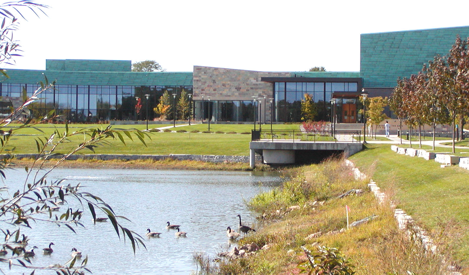 Bloomington City Hall in 2006. taken by William Wesen 10/01/06